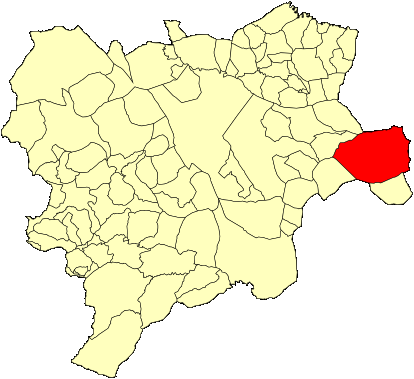 Location of Almansa (Spain) within the province of Albacete.